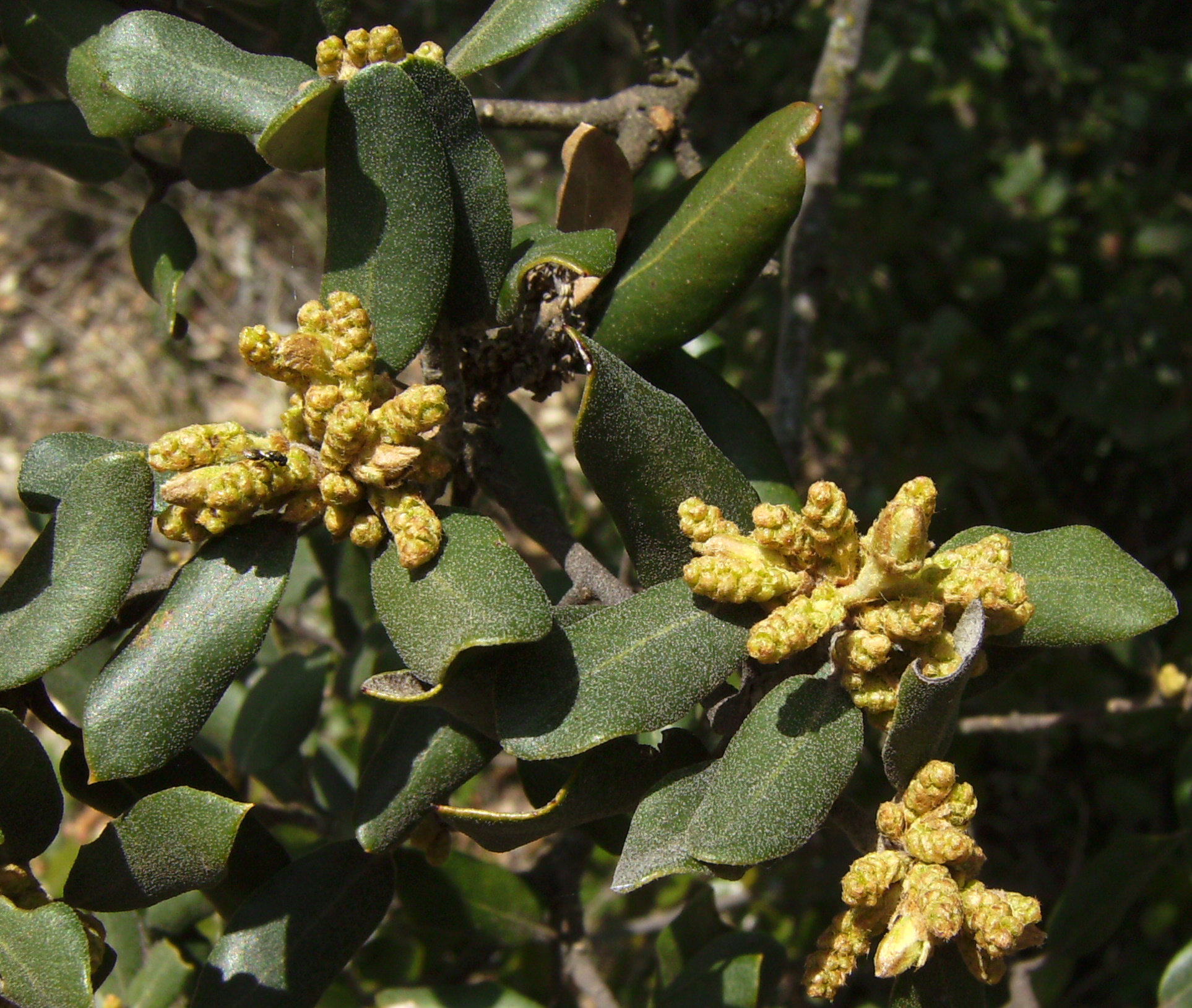 Quercus ilex inmature male flowers, Castelltallat, Catalonia